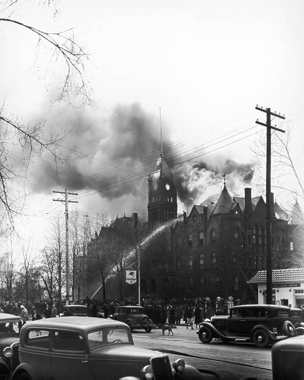 City hall burned in 1935 and was replaced with a modest two story, depression era Art Deco styled building shortly after.